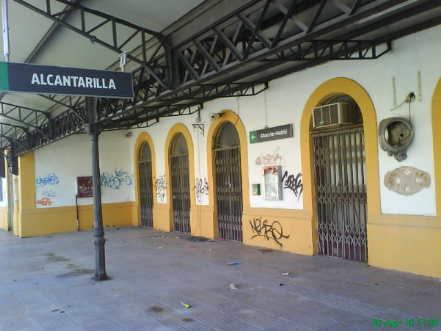 Vista del andén 1